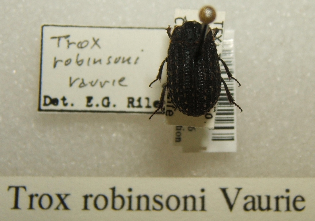 Trox robinsoni adult taken by Shawn Hanrahan at the Texas A&M University Insect Collection in College Station, Texas. Cropped version: Trox robinsoni sjh.cropped.jpg